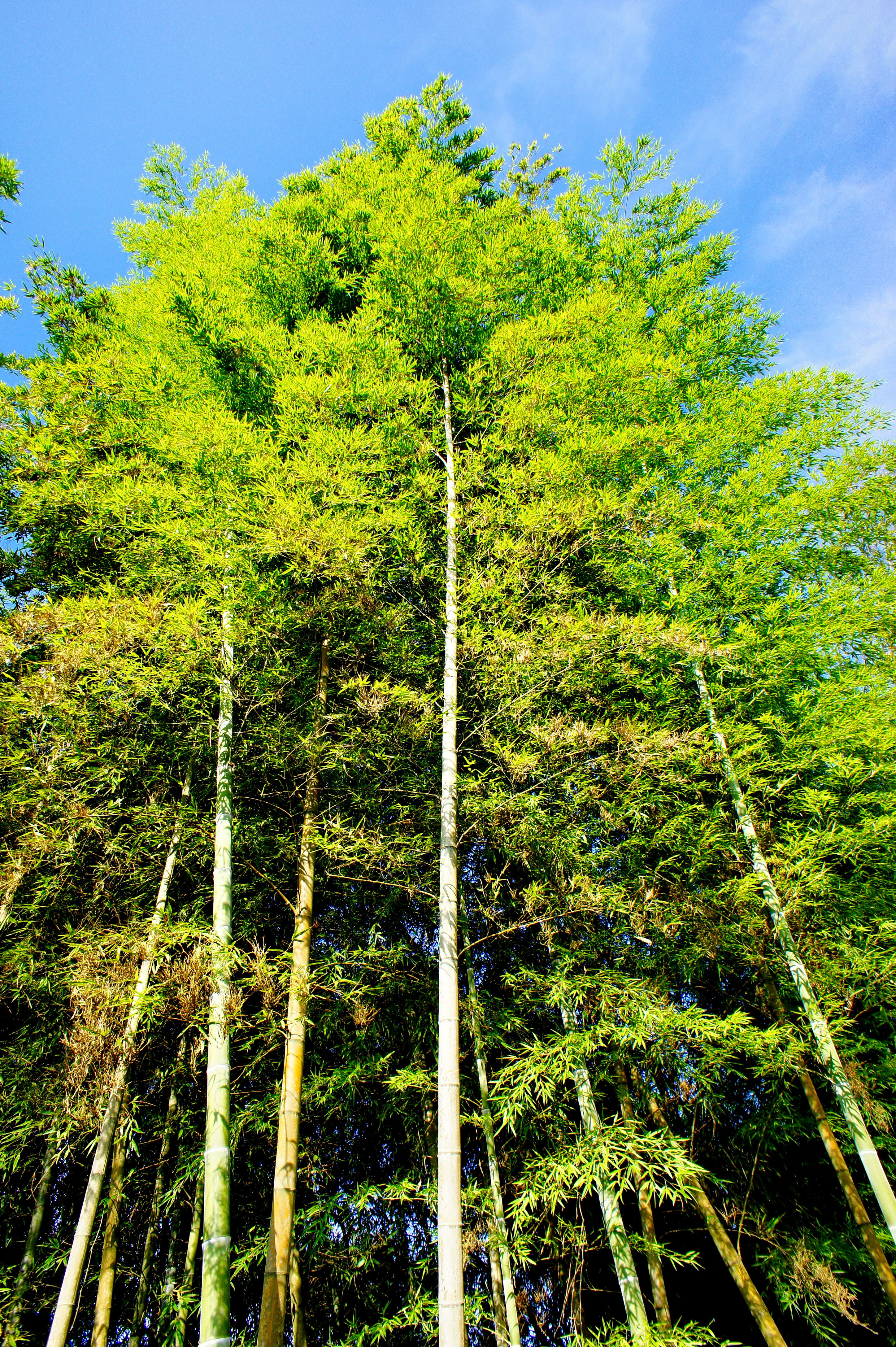 Phyllostachys edulis